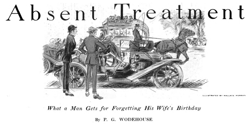 Illustration by Wallace Morgan for the Reggie Pepper story "Absent Treatment" written by P. G. Wodehouse